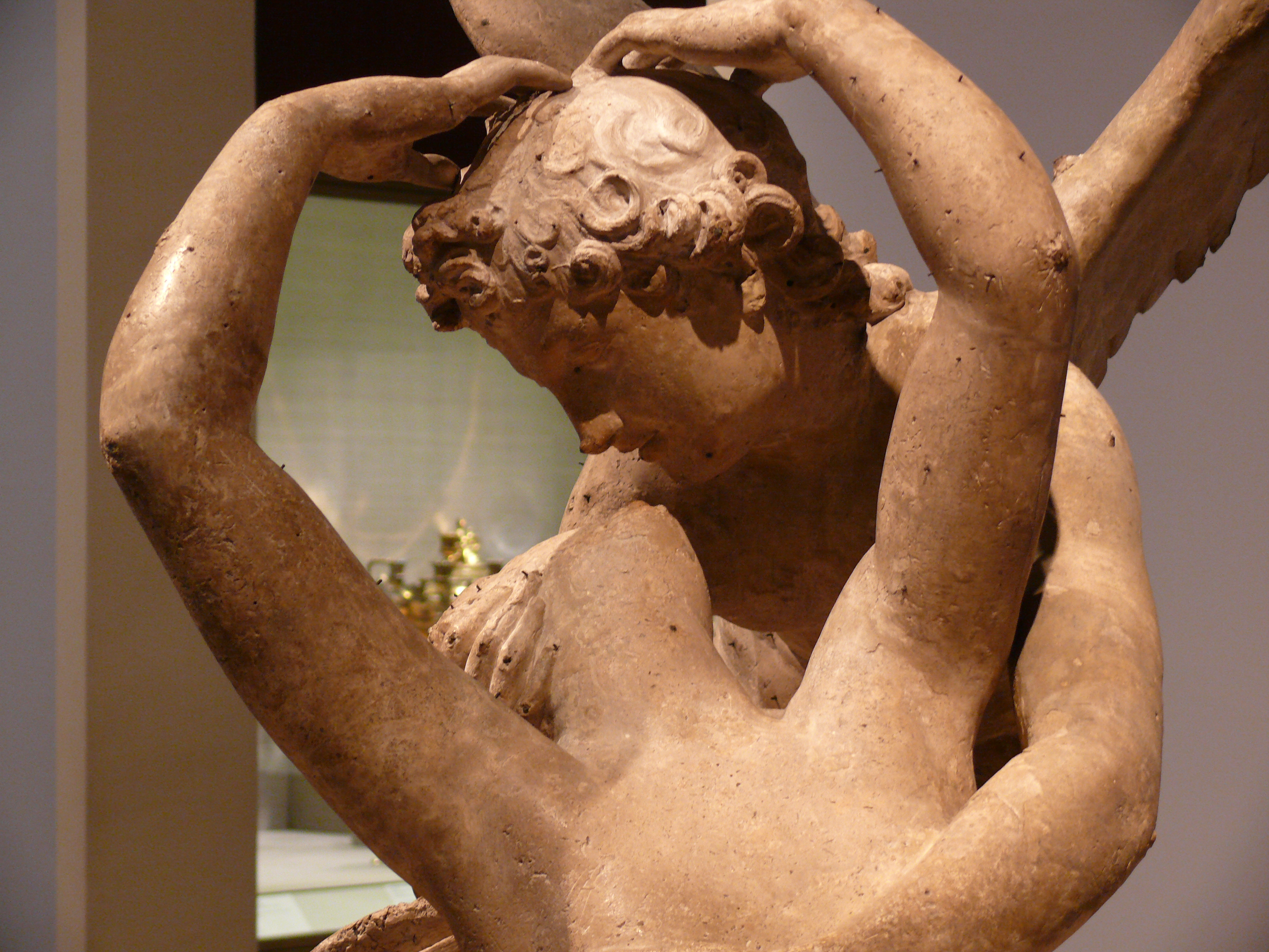 Antonio Canova (1757–1822), plaster model for Cupid and Psyche, 1794, in the Metropolitan Museum of Art, New York, NY. Dimensions: 134.6 x 151.1 x 81.3 cm Gift of Isidor Straus, 1905 Accession number: 05.46